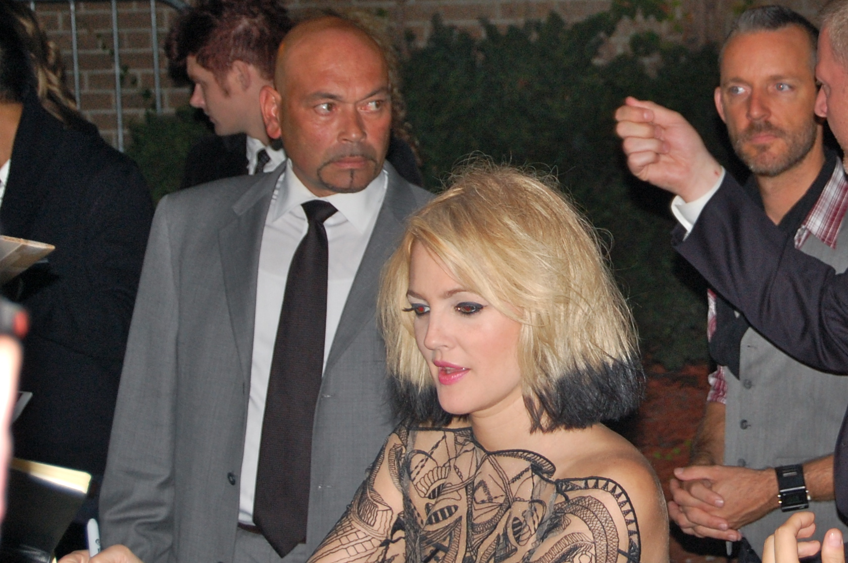 Whip It premiere - Ryerson Theatre - September 13, 2009